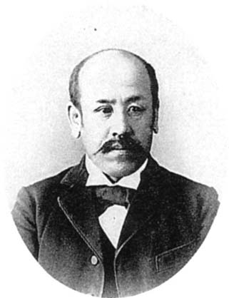 N. Matoba, Professor of Mining and Metallurgy.